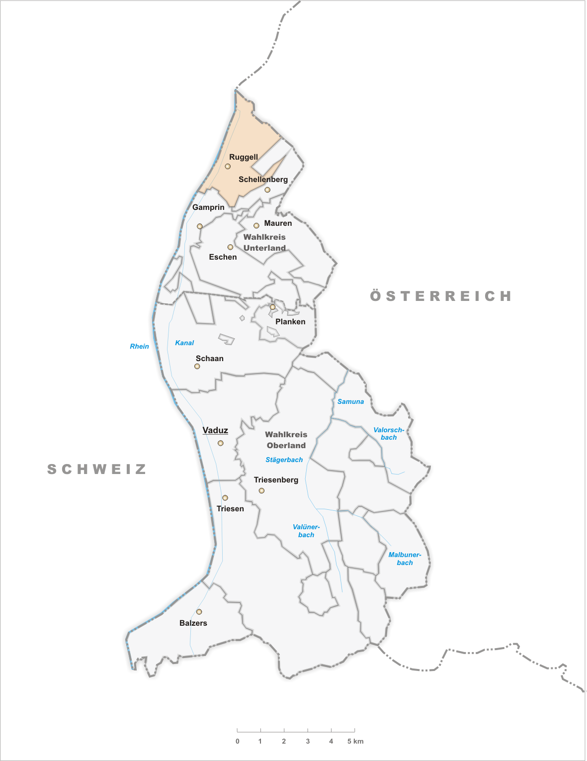 Municipality Ruggell